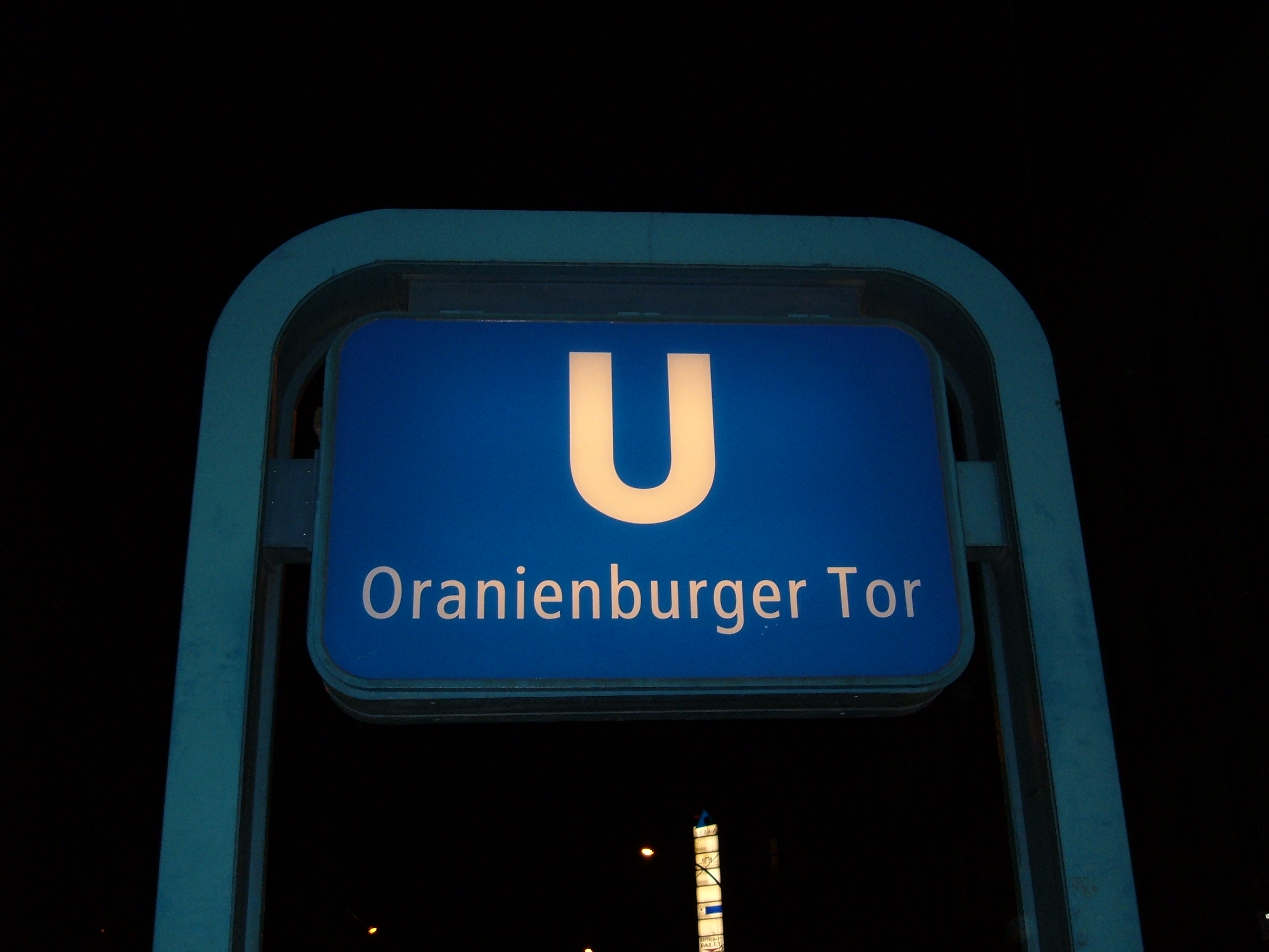 A sign outside the Oranienburger Tor U-Bahn station, Berlin, Germany.